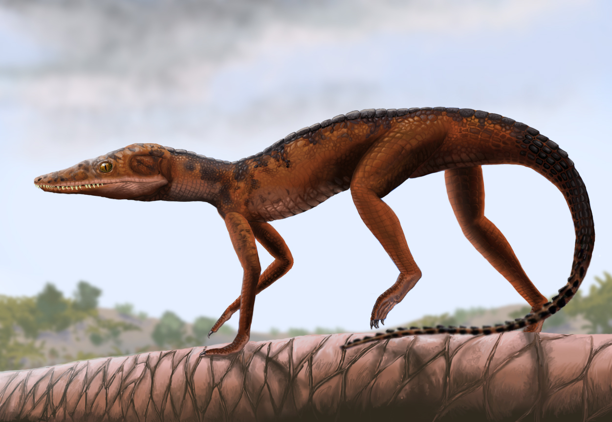 Life restoration of Litargosuchus leptorhynchus. Skull based on Figure 2 of "Two new basal crocodylomorph archosaurs from the Lower Jurassic and the monophyly of the Sphenosuchia" by James M. Clark and Hans-Dieter Sues (Zoological Journal of the Linnean Society 136(1): 77-95) Body proportions based on specimen QS 606, referred to Pedeticosaurus leviseuri and probably belonging to Protosuchus haughtoni (photo here)